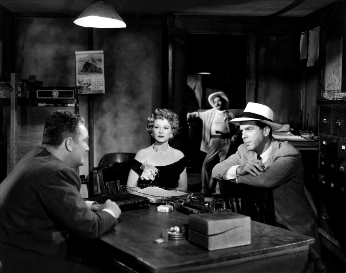 L. to R. : Roy Roberts, Claire Trevor, José Torvay, and Fred MacMurray in Borderline (1950) - cropped screenshot